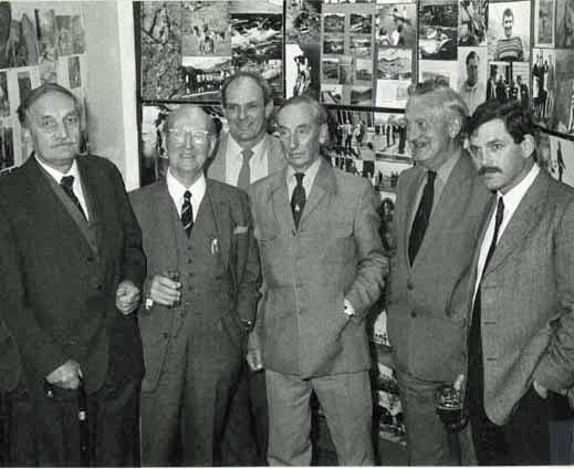 30th reunion since the inception of Plas-y-Brenin: G.I Milton, Justin Evans, Dave Alcock, Sir Jack Longland, John Jackson and John Barry. All the photographic work on the background display was done and supplied by JAJ.